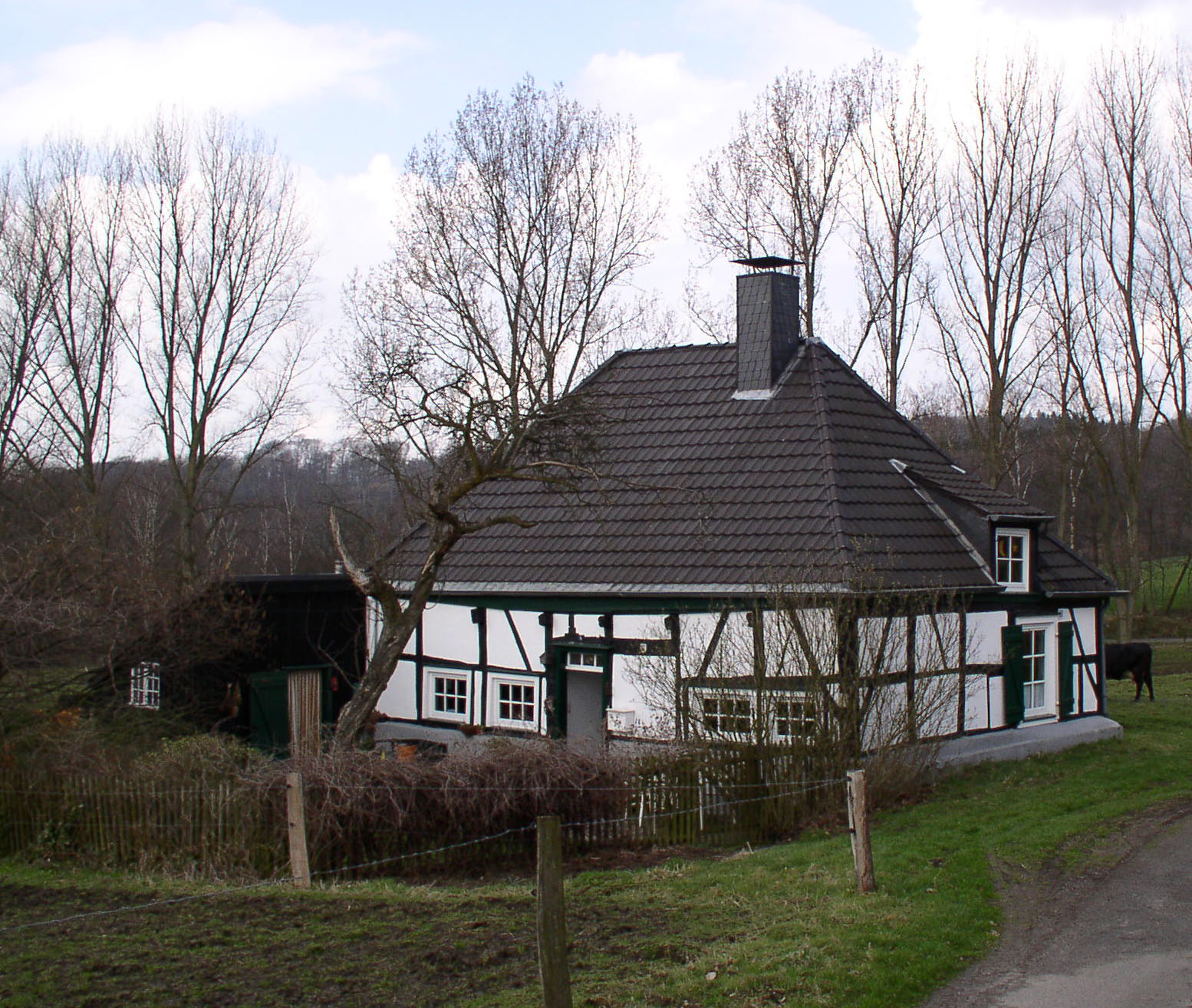 Haus Schede - Farm house at the manor, build in the 17. century This is a photograph of an architectural monument.